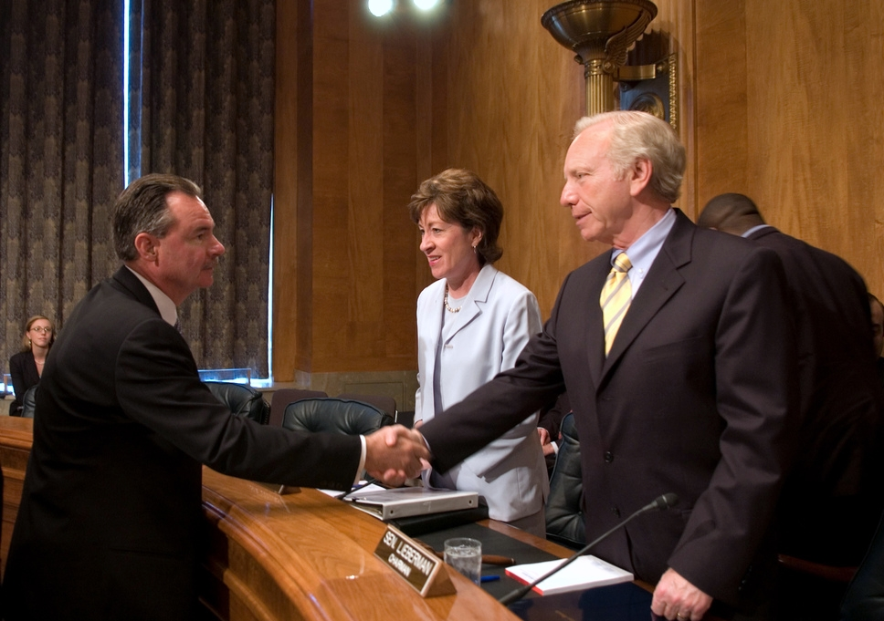 how FEMA has prepared for the upcoming Hurricane season